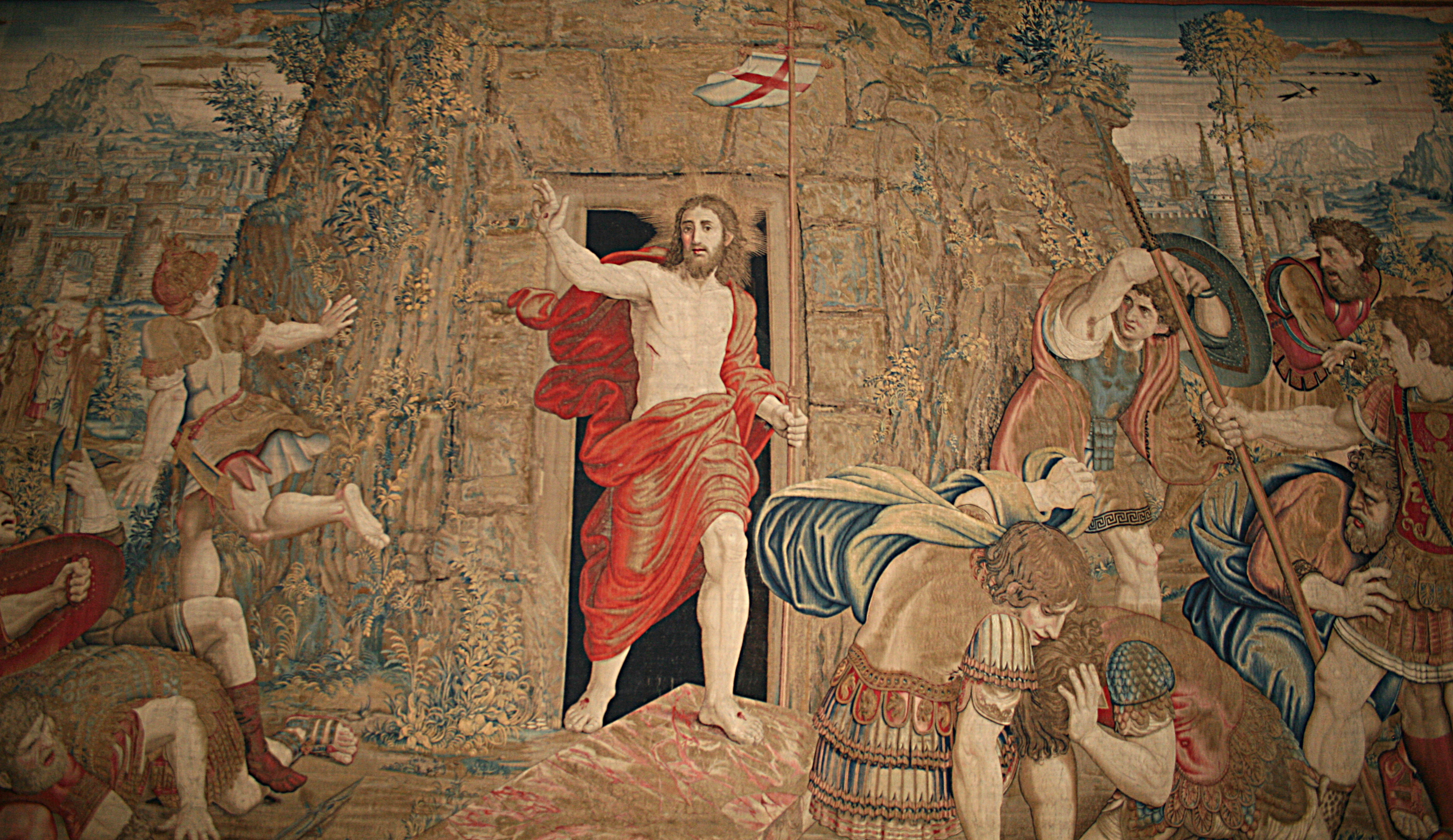 Tapestry made in Brussels.